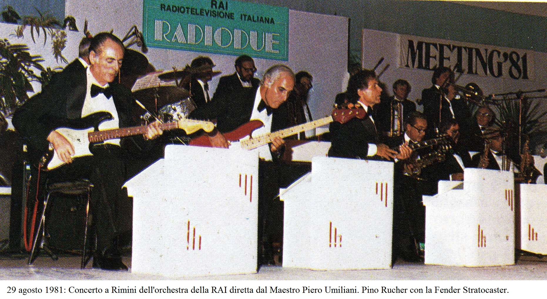 August 29, 1981: Meeting per l’amicizia fra i popoli. Concert in Rimini of the Rai Orchestra directed by Master Piero Umiliani. Pino Rucher (first from left) next to bass guitarist Giorgio Rosciglione.